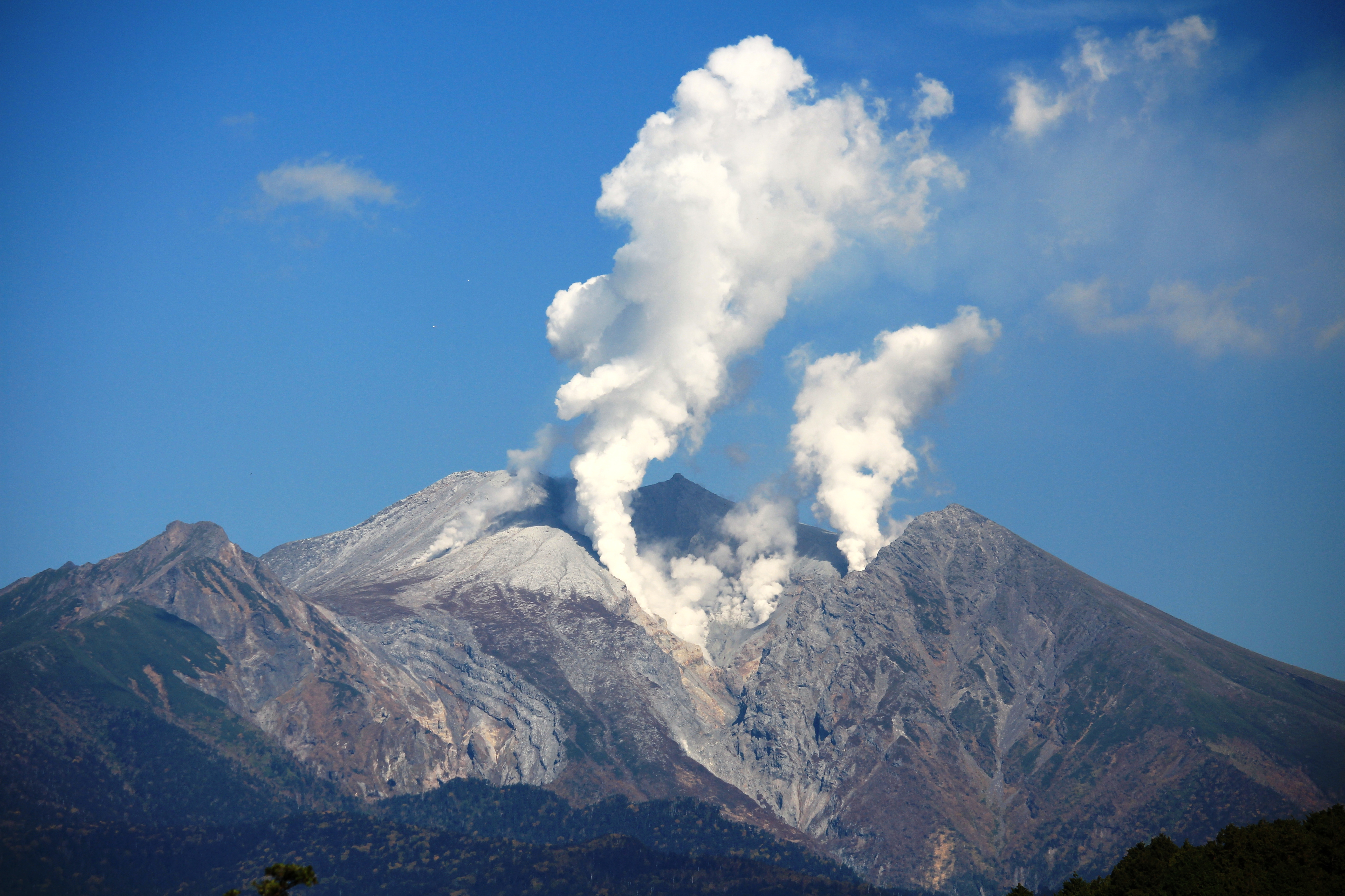 Mount Ontake seen from Kurakake Pass, in Ōtaki, Nagano prefecture and Gero, Gifu prefecture, Japan.